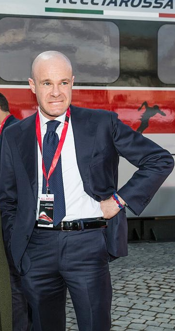 Alessio De Sio - Director of Communications HITACHI RAIL ITALY - Hitachi Rail Italy mock-up Frecciarossa1000